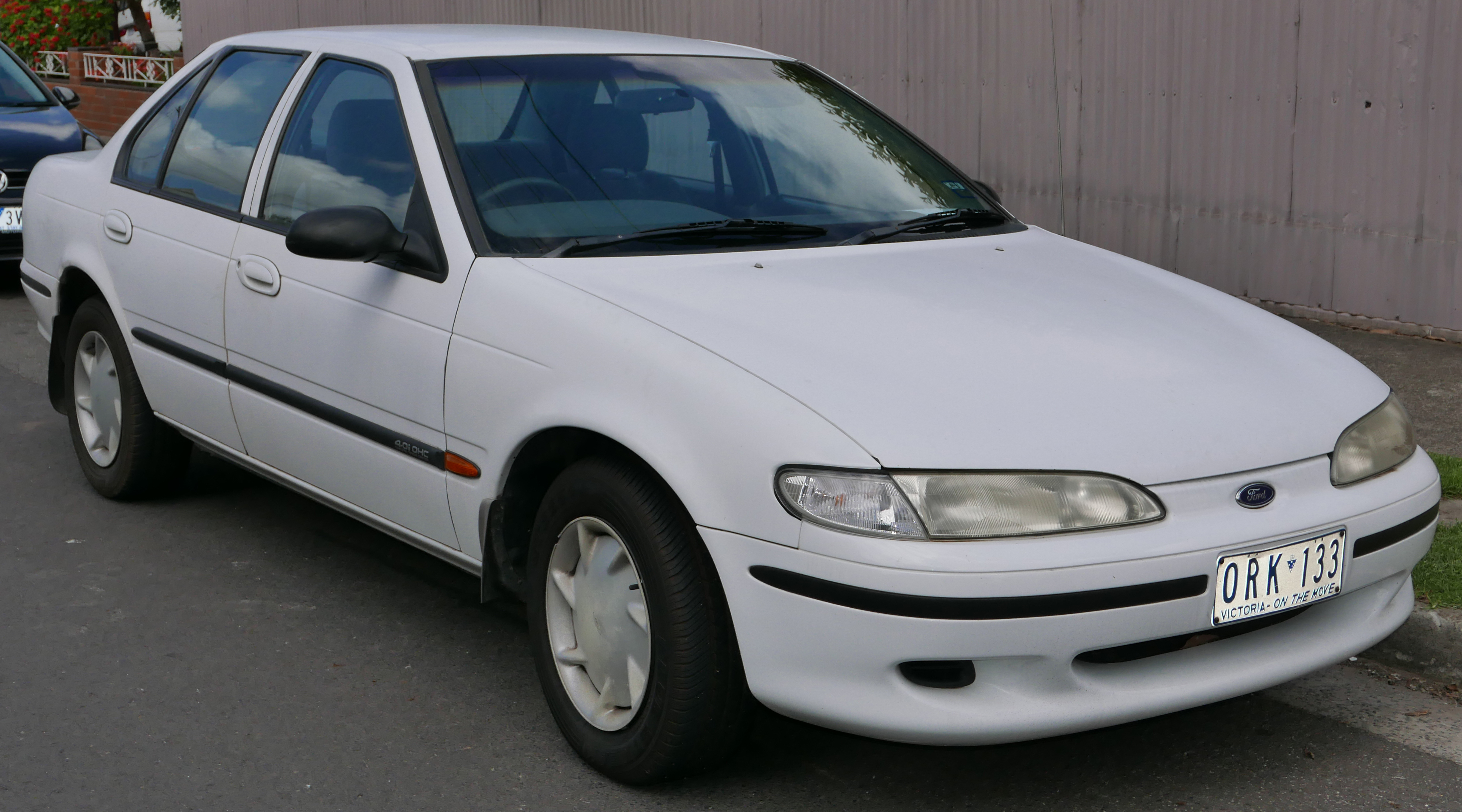 1994 Ford Falcon (EF) GLi sedan. Photographed in Brunswick East, Victoria, Australia. Vehicle registration enquiry results Jurisdiction Victoria Registration ORK133 Chassis code 6FPAAAJGSWRA54863 Engine code JGSWRA54863 Compliance date 1994-10 Year of manufacture 1994